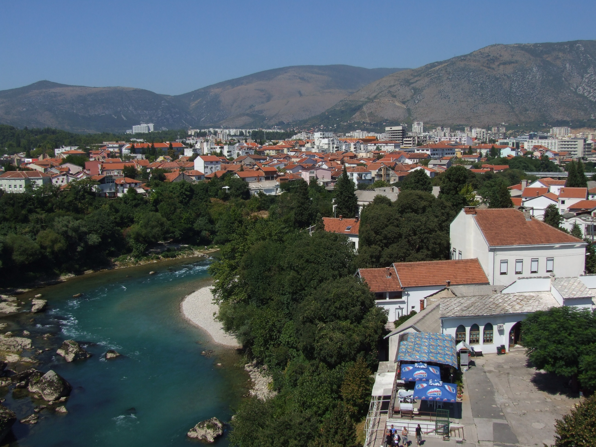 Mostar and Neretva - view from Koski Mehmed Pasha Mosque